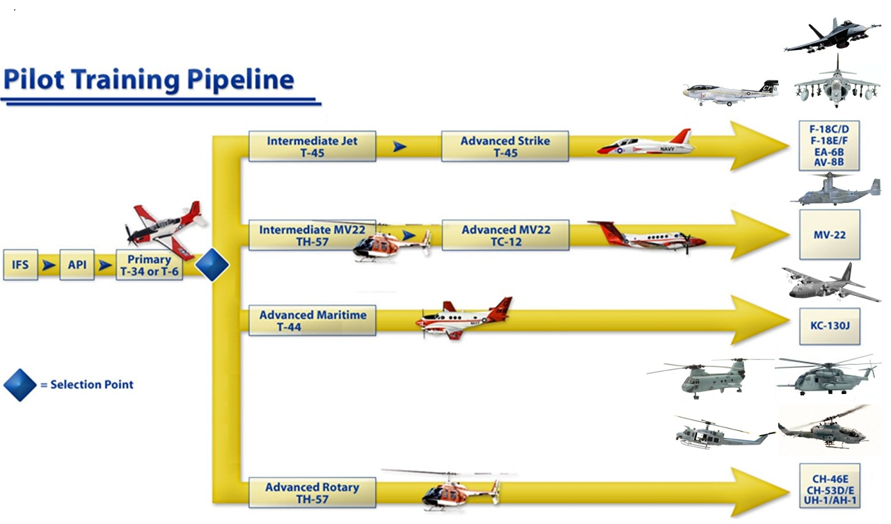 USMC Aircraft Selection Process